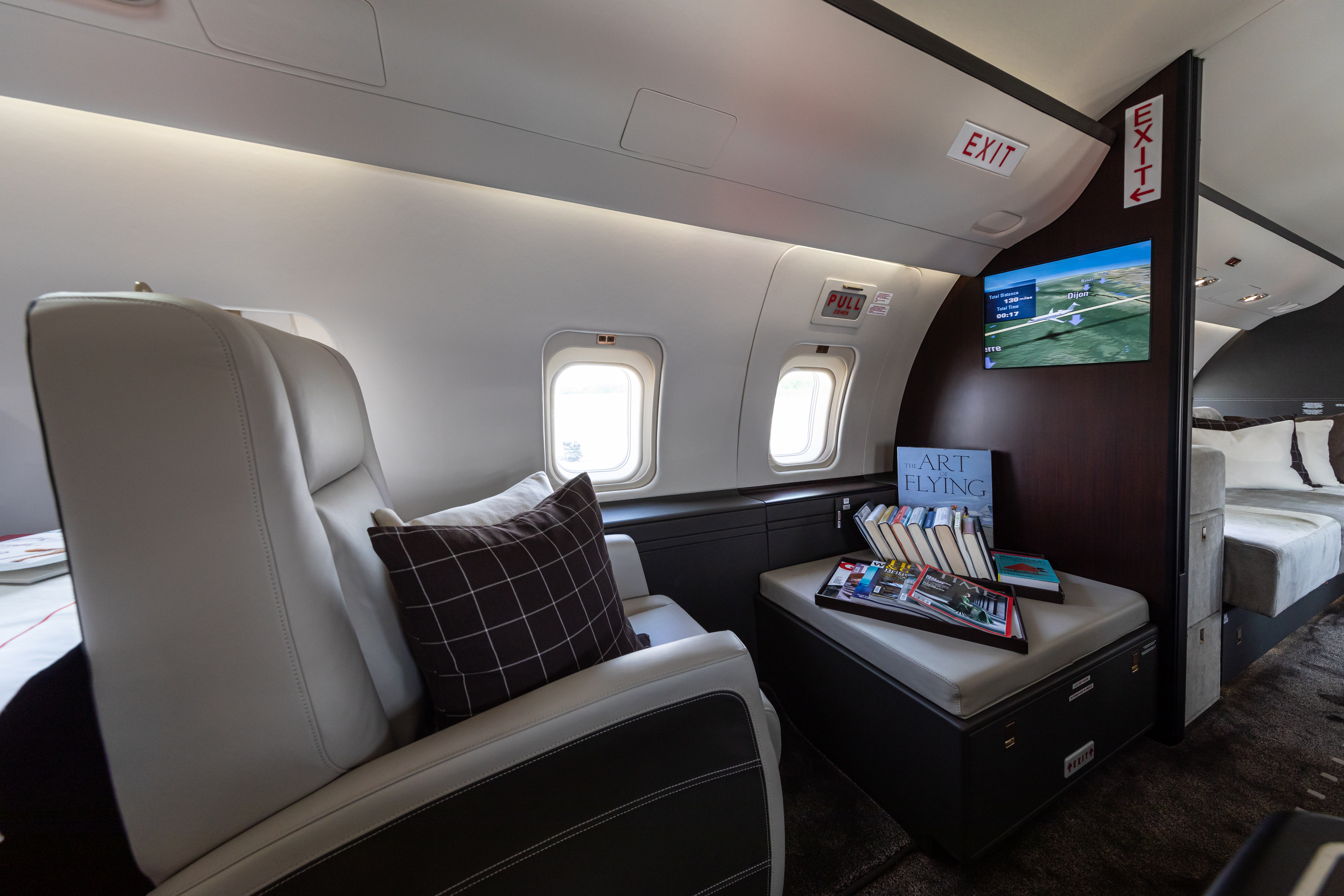 EBACE 2019, Palexpo, Switzerland